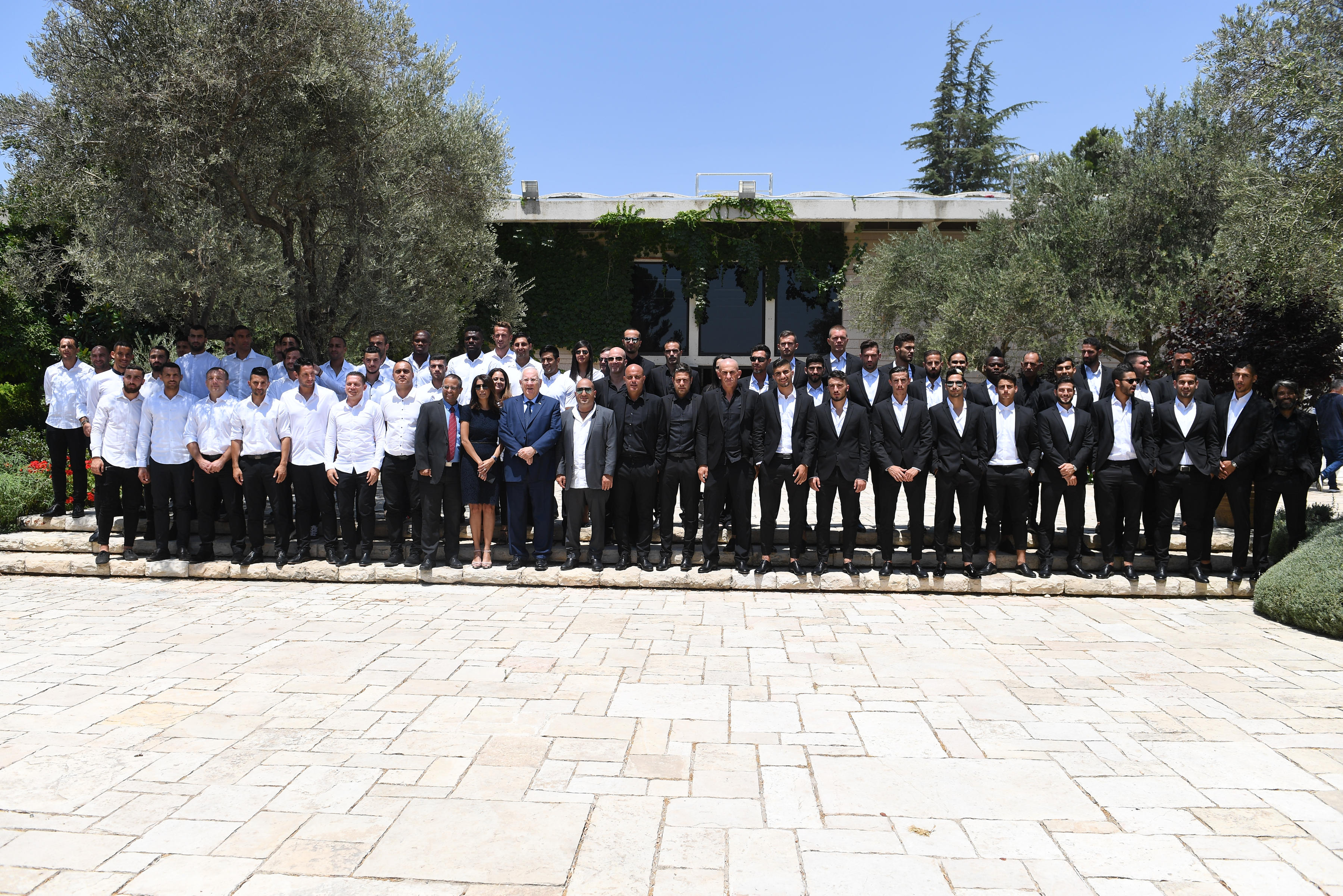 The ceremony of awarding the "Shield of Honor" for the 2016/17 season by President Reuven Rivlin. Monday, August 7, 2017. Photo Credit: Mark Neyman / GPO.